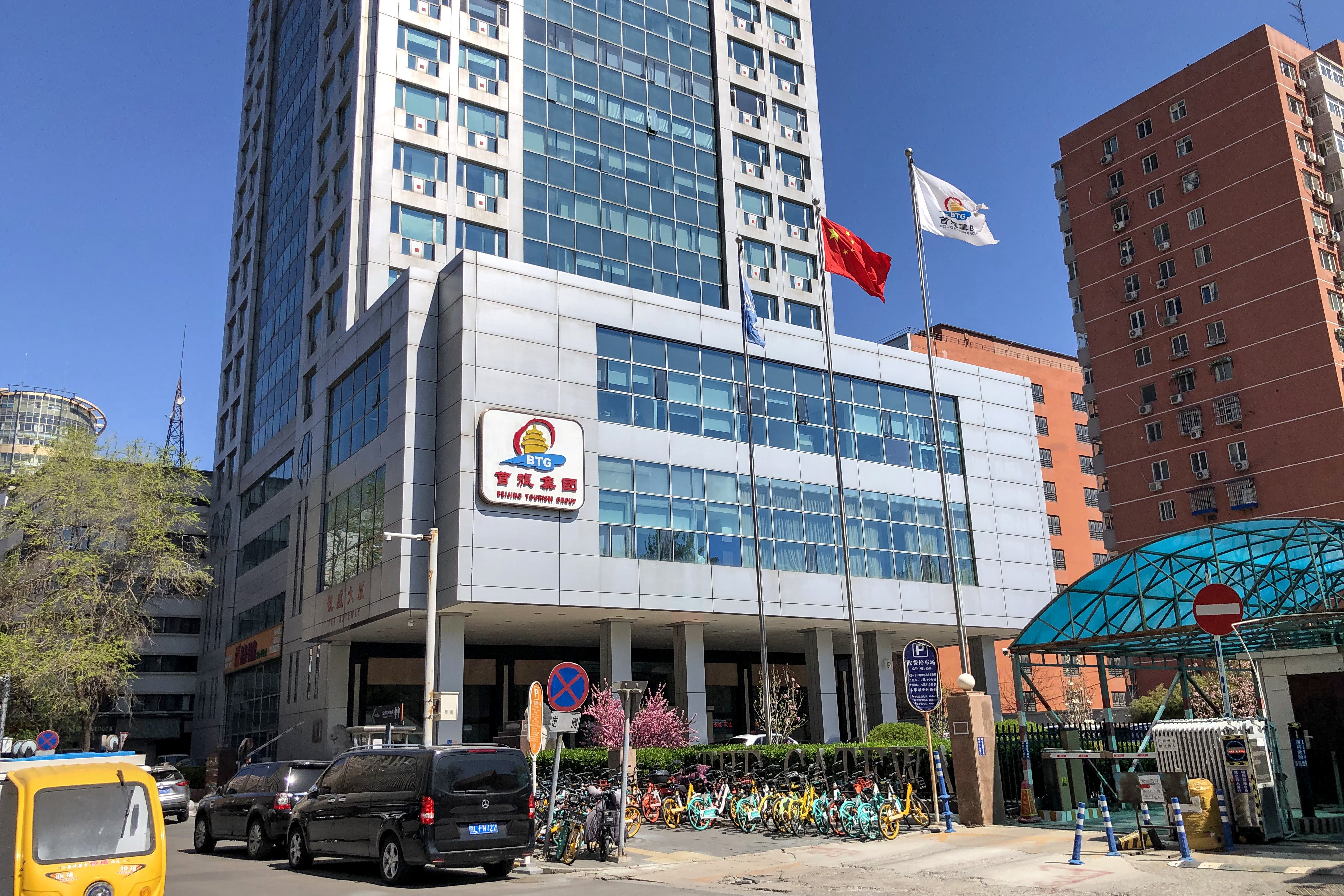 Just one block from the famous Yabao Rd.